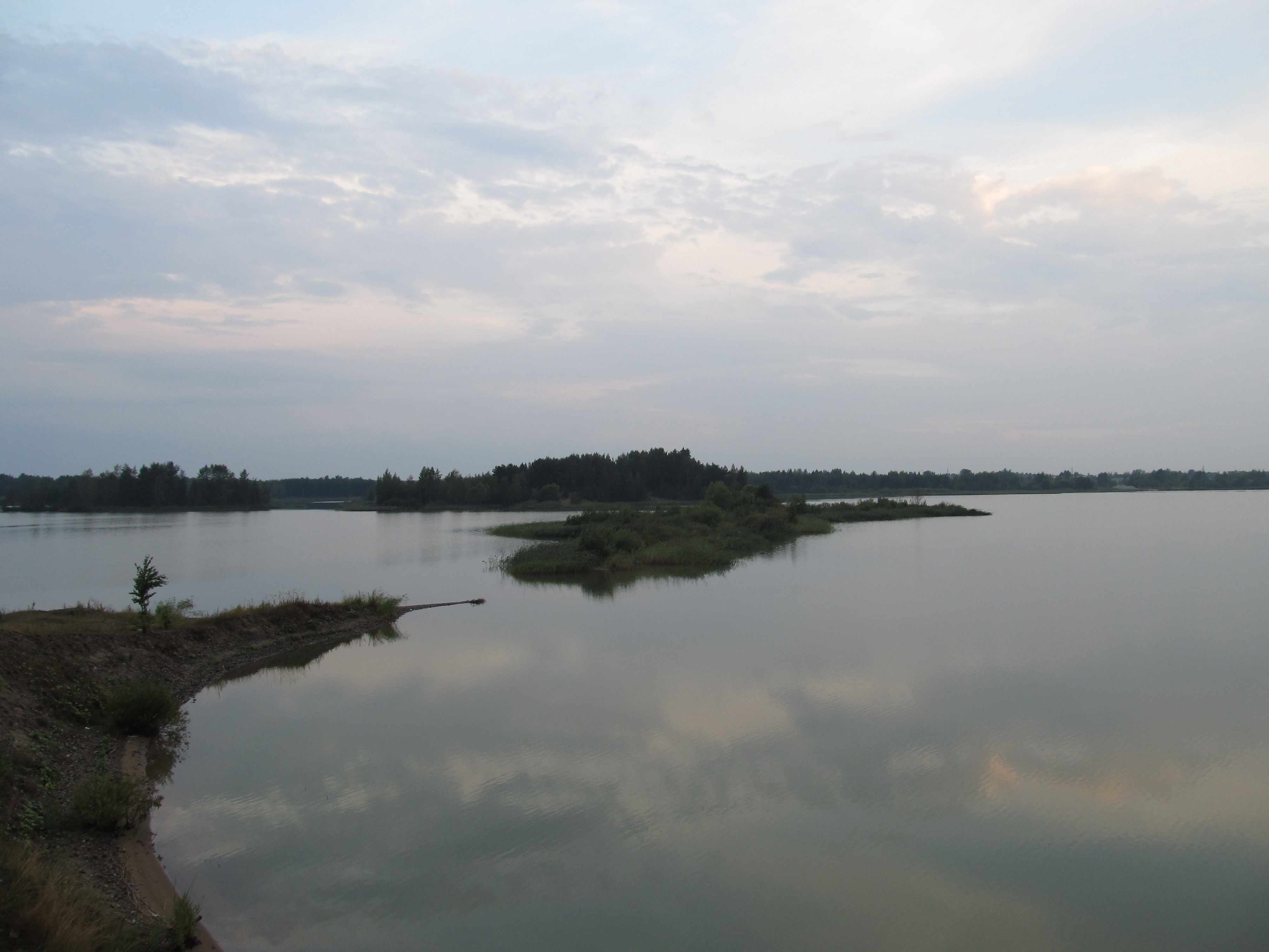 This photo was taken on the peninsula of the lake Raku.